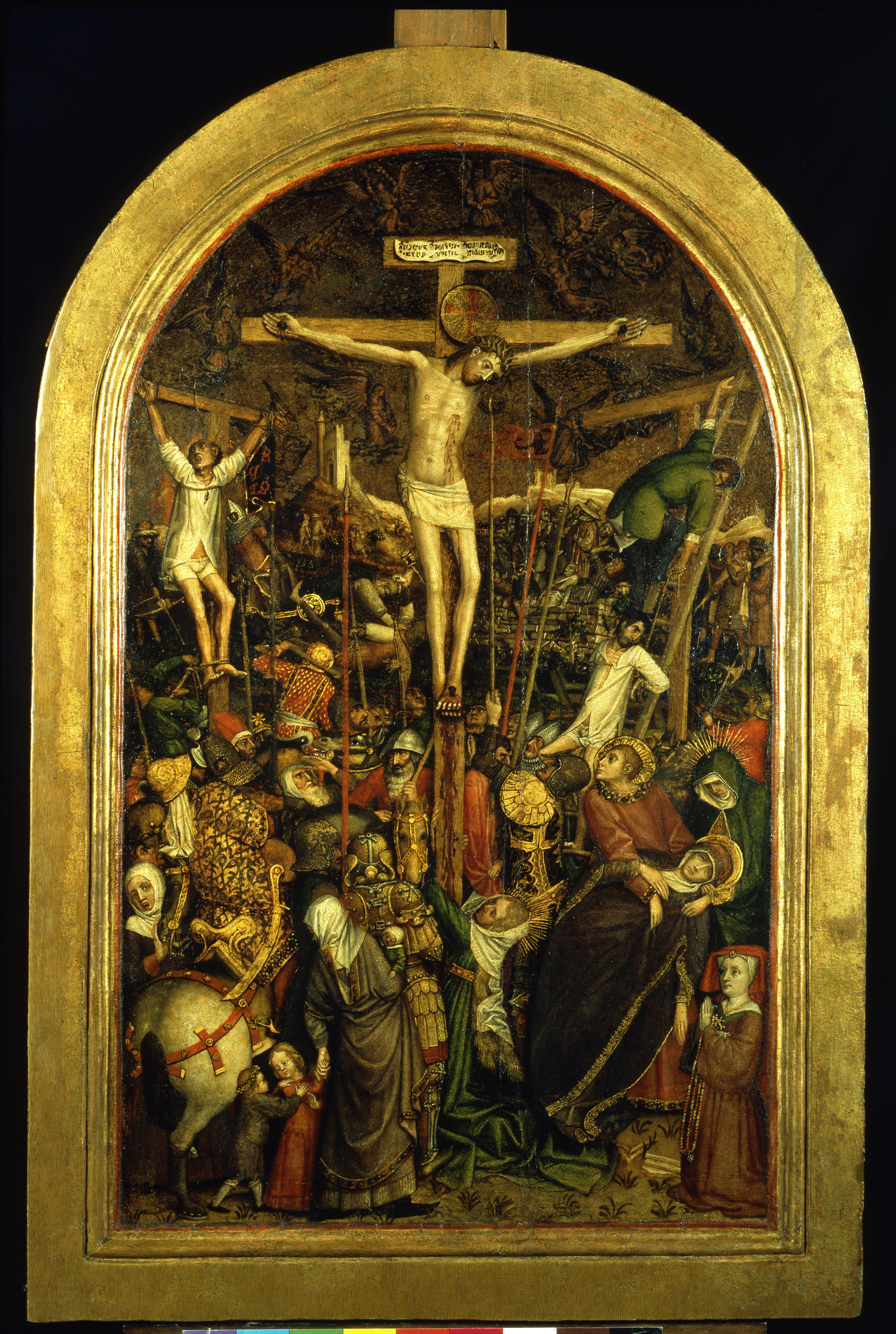 The crucified Christ is surrounded by a tumultuous crowd.